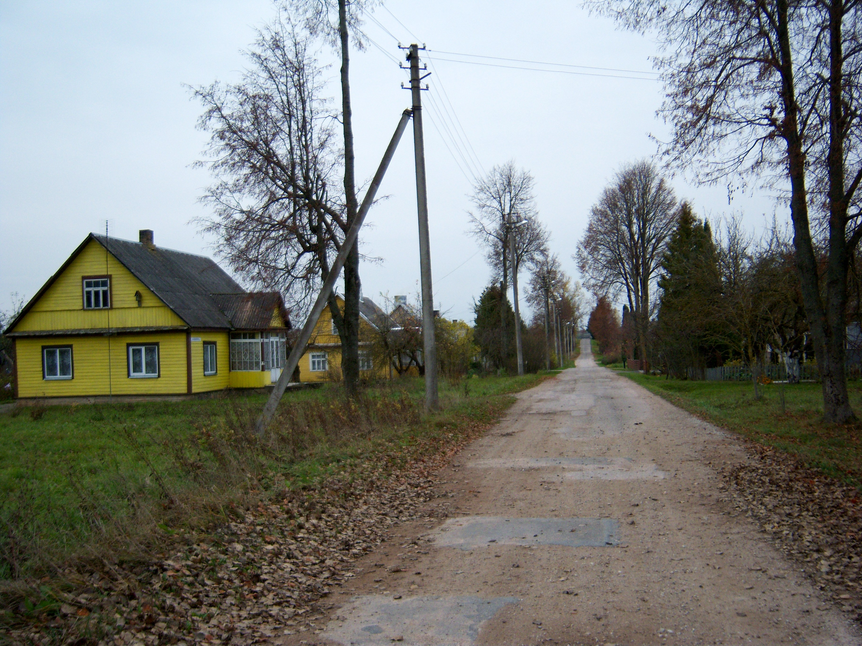 Pagiriai, Anykščiai District, Lithuania